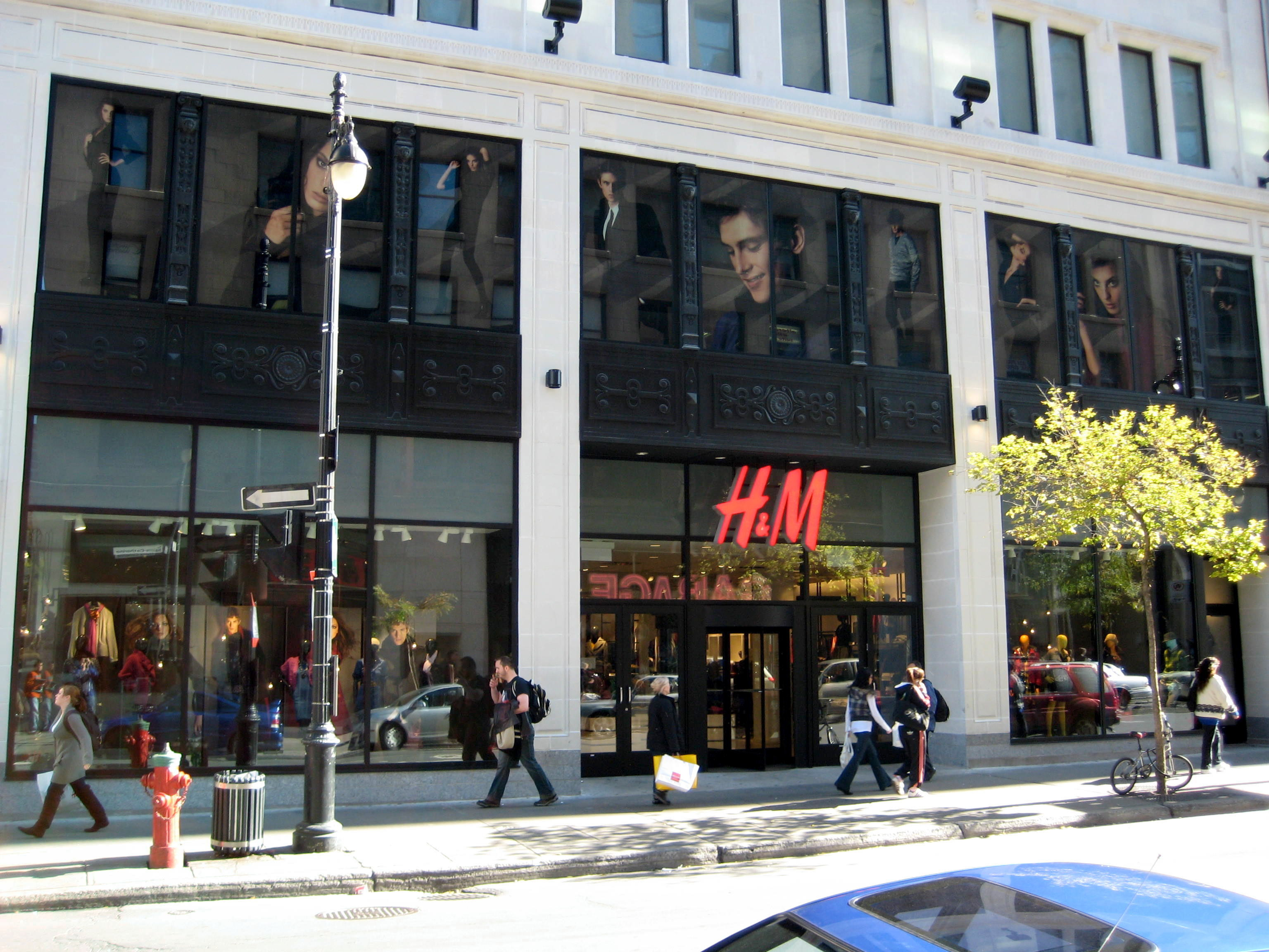 H&M at 1100 Saint Catherine Street (corner of Peel and St. Cathrine street), downtown Montreal.